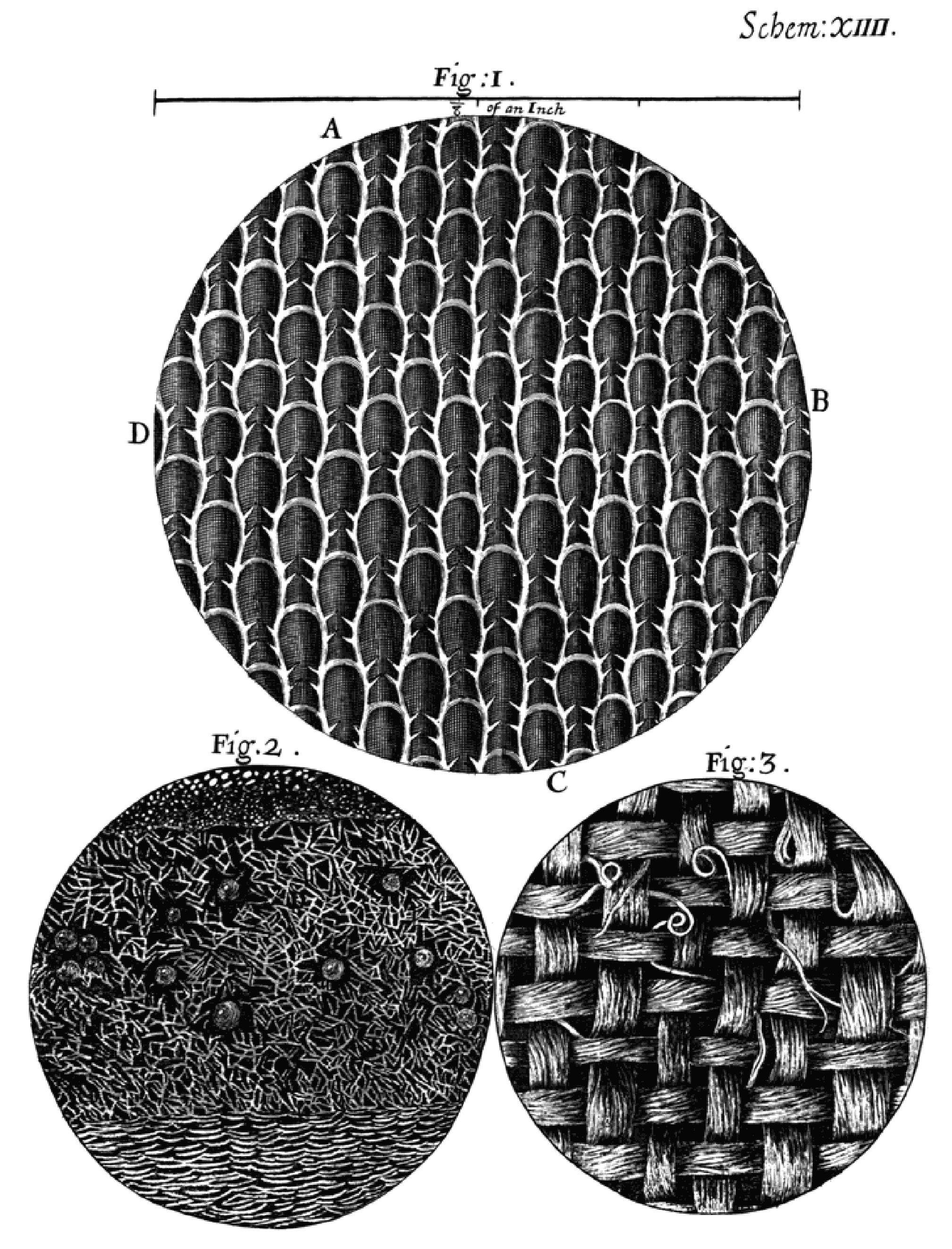 Scheme 14